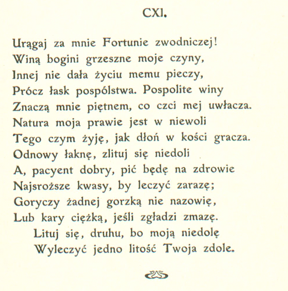 Sonety Shakespeare'a I-CXXXIV i CXXXVII-CLIV tłumaczenie Maria Sułkowska (MUS) sonet 111 (strona 125)